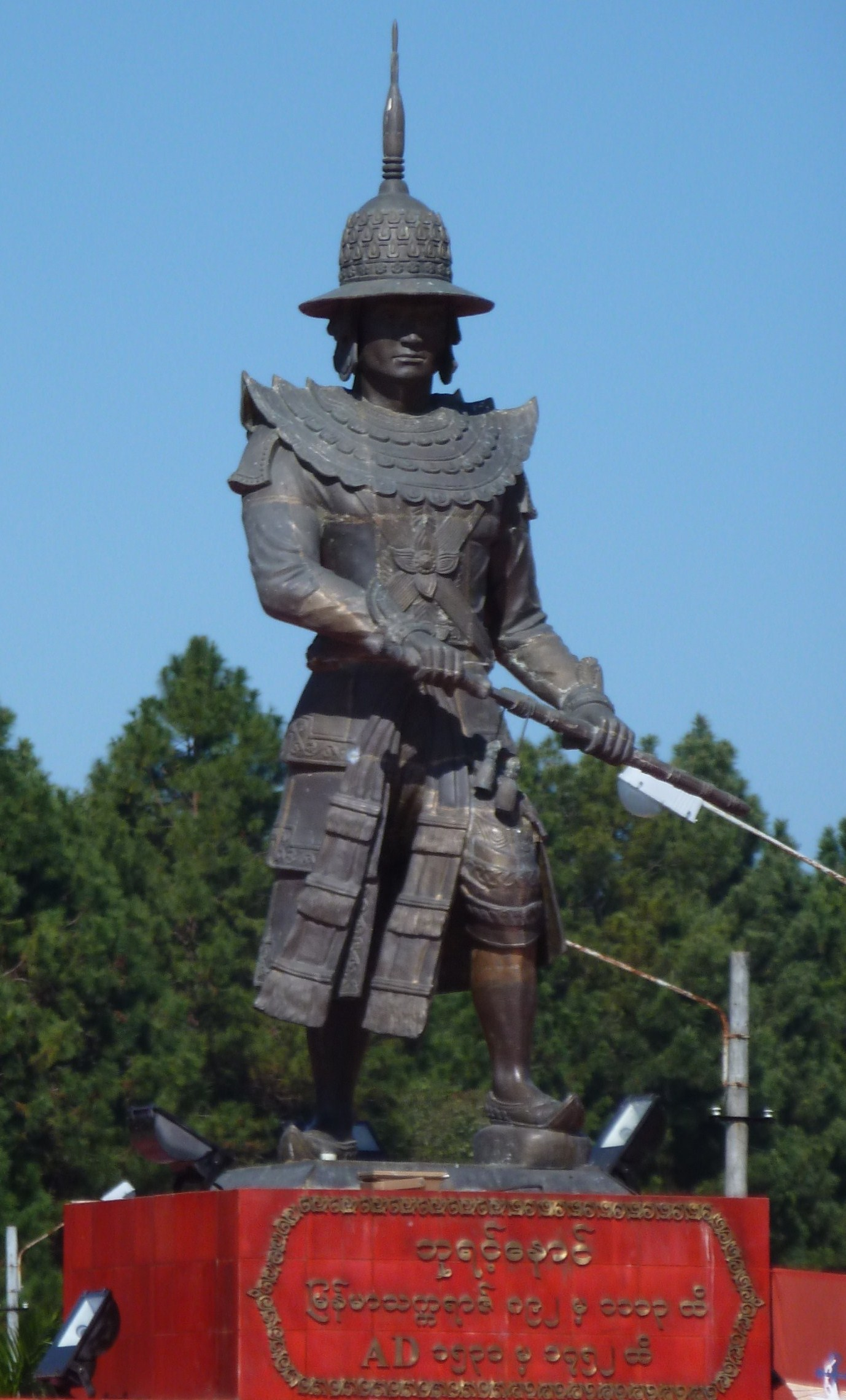 Statue of King Bayinnaung in front of the Defence Services Academy